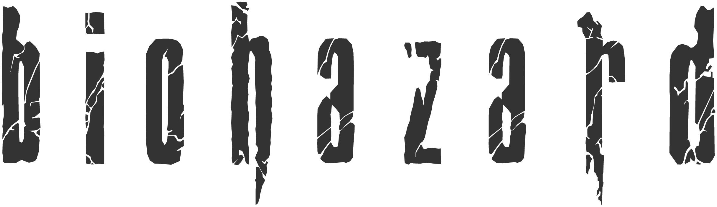 Resident Evil series eastern logo